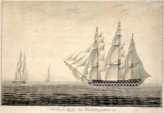 Sketch of His Majesty's Ship Triumph of 74 Guns 1808; watercolour